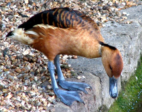 Oxyura australis Location:St James Park, London (based on Flickr page information)